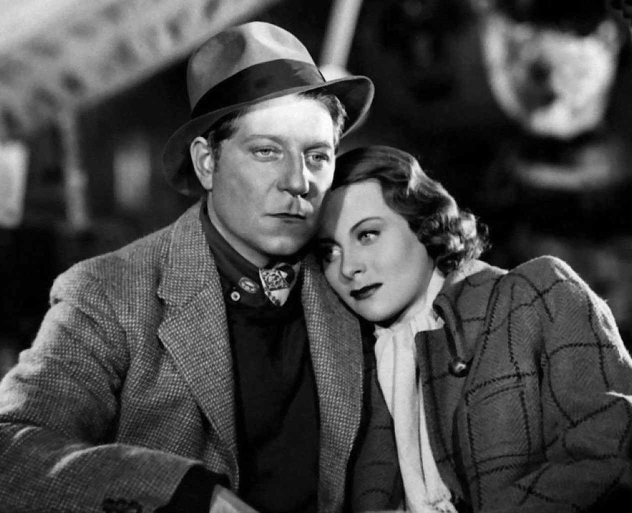 Jean Gabin and Michèle Morgan in «Port of Shadows» 1938